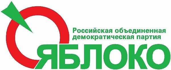 Logo of the Russian Democratic Party "Yabloko"